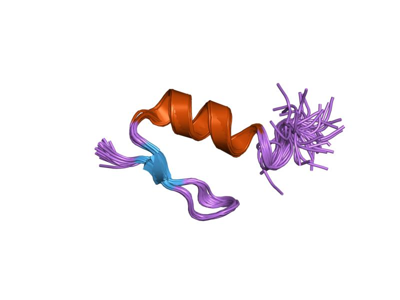 Cartoon representation of the molecular structure of protein registered with 1xf7 code.